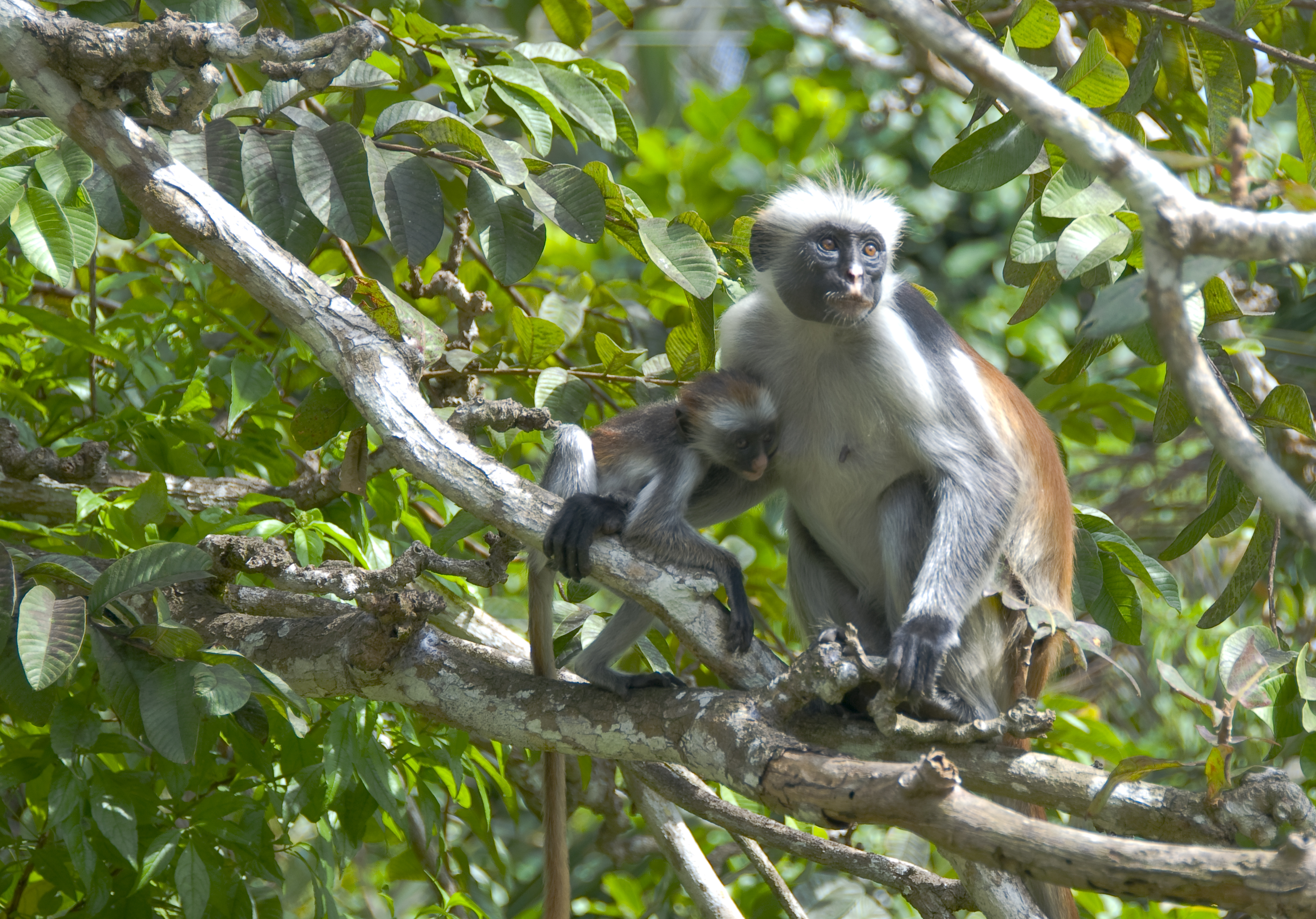 Zanzibar red colobus (Piliocolobus kirkii) on Zanzibar island